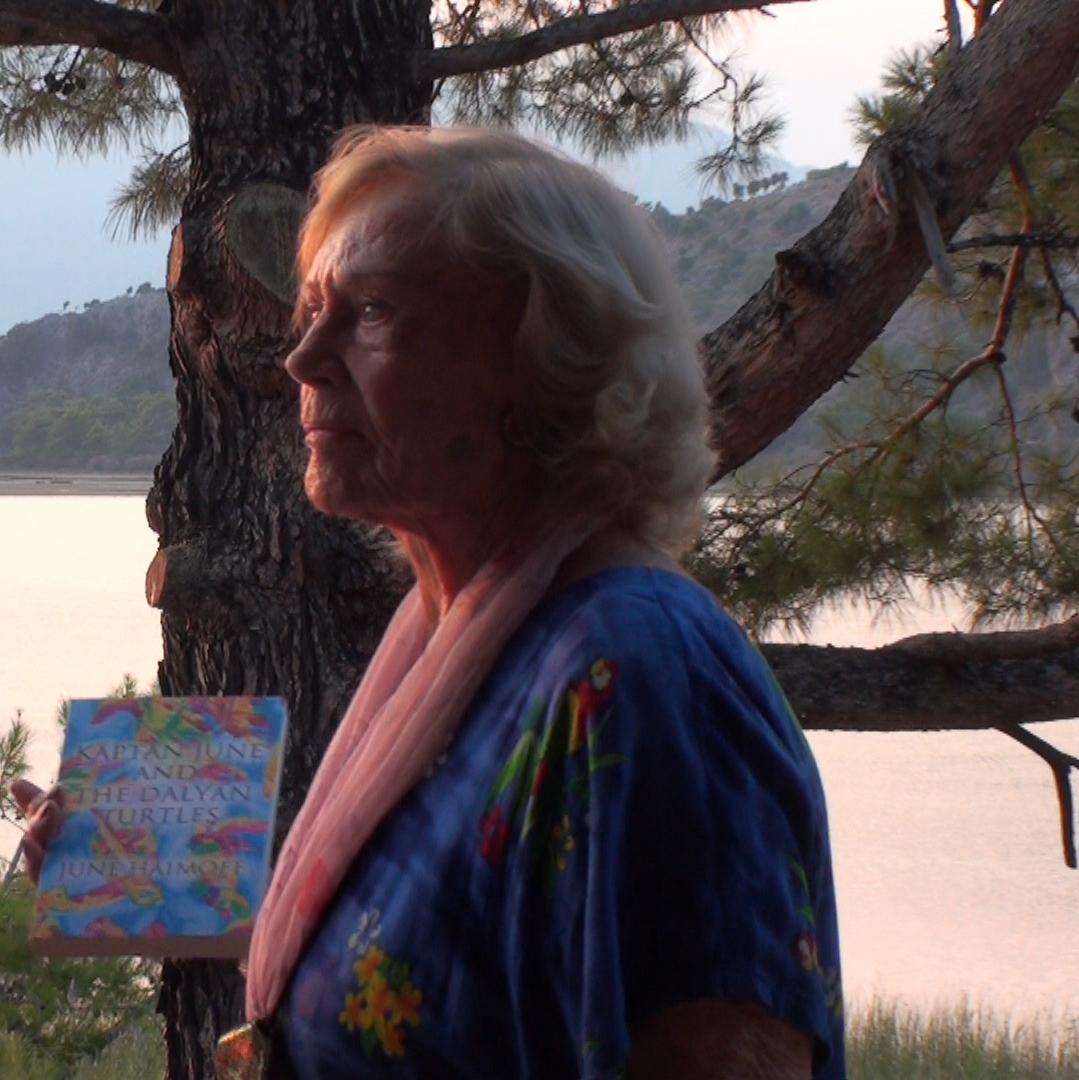 June Haimoff at Sea Turtle Rehabilitation Centre at Iztuzu Beach. Photo: Maria Jonker